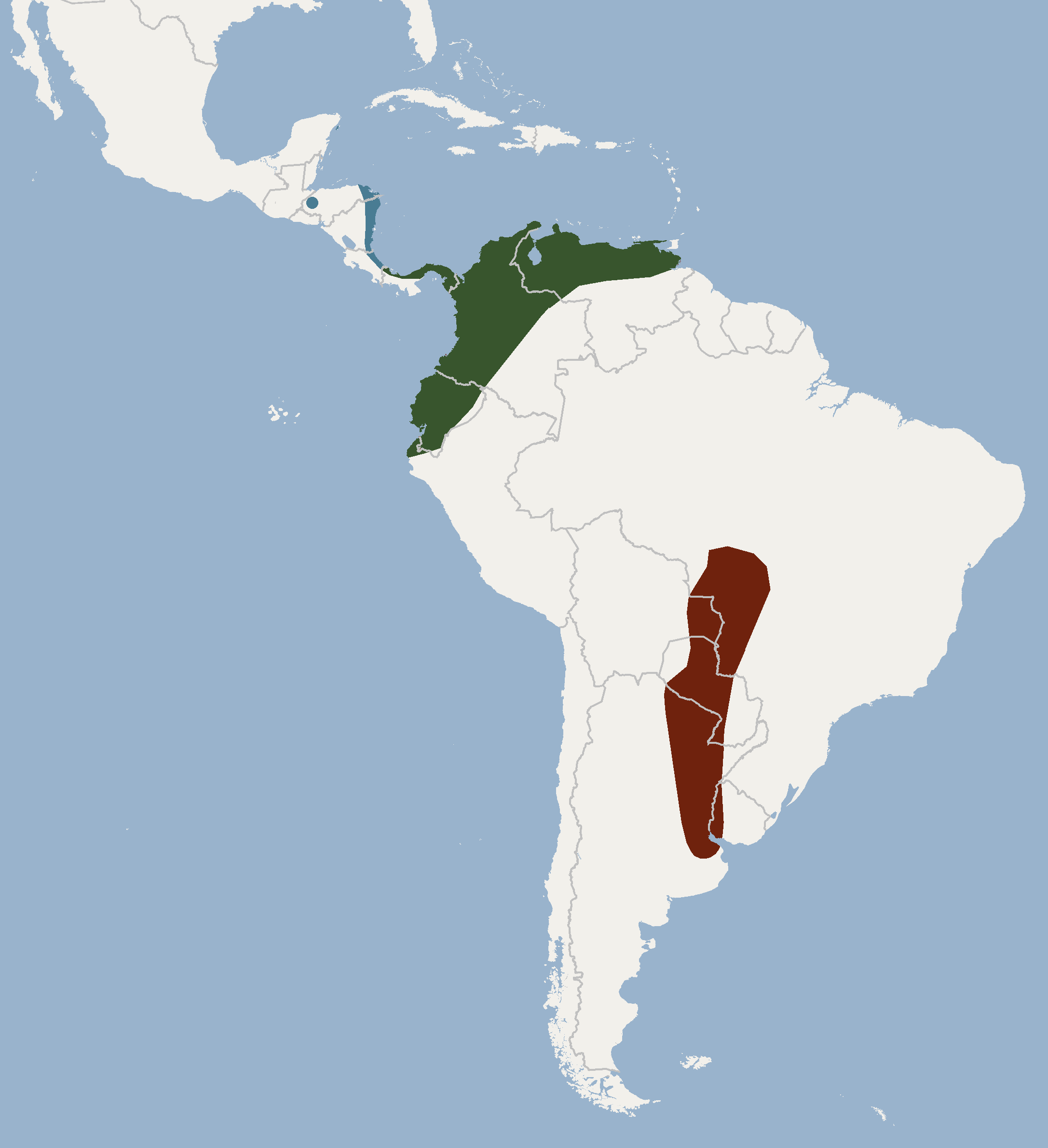 According to , Reid, 2008. Subspecies range in different colours. Molossus currentium currentium Molossus currentium bondae Molossus currentium robustus